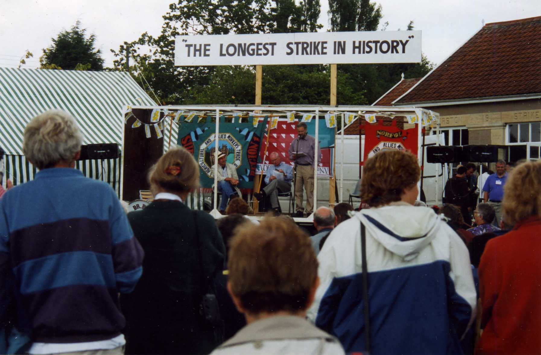 On the right, the strike school building, with the various carved blocks recording the financial support received from diverse sources. The background to the strike is found here The 2010 rally occurs on 4 September. Jeremy Corbyn was back a few years later in 2004.